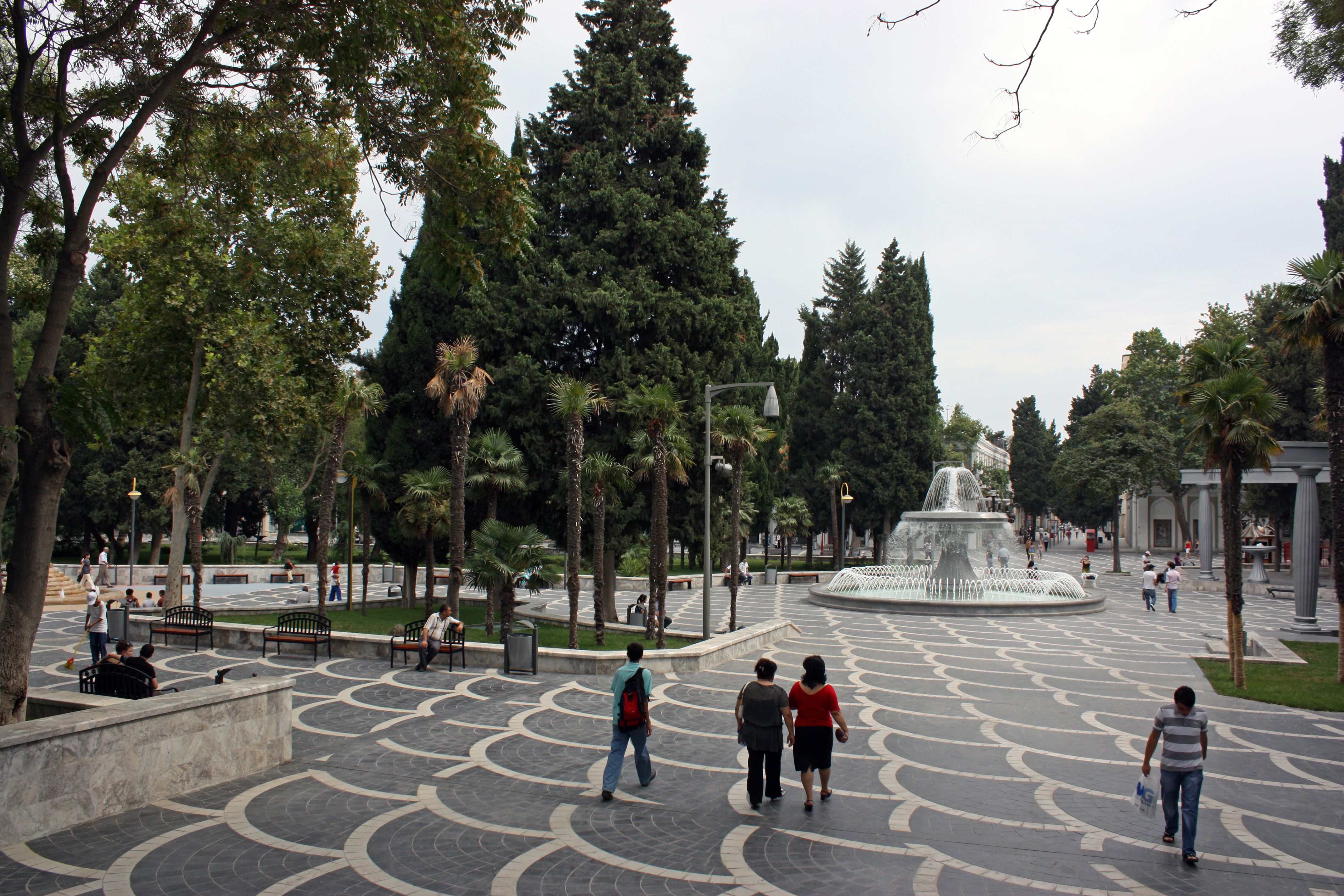 Fountains Square in August 2010